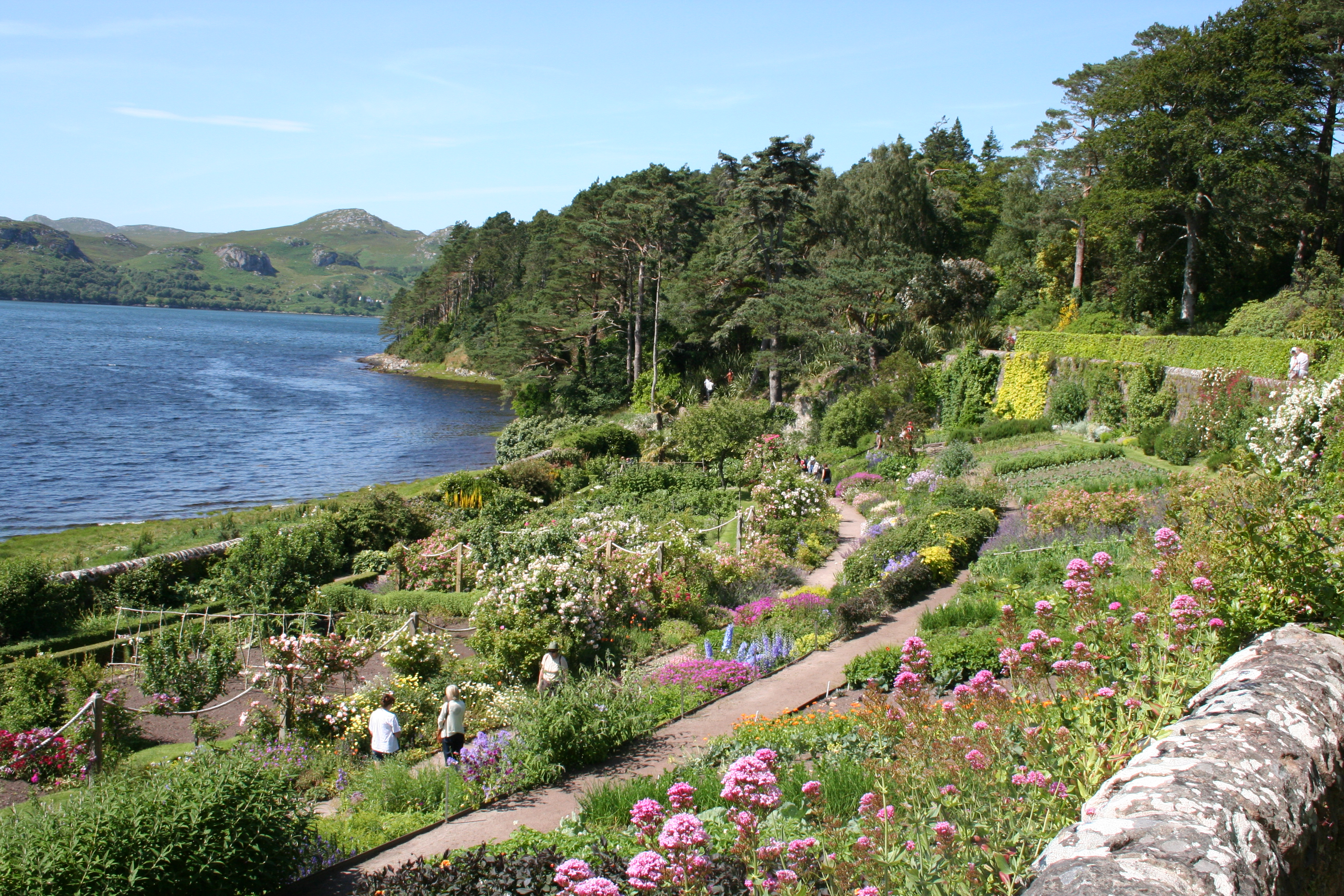 The nice walled garden in the Inverewe garden maintained by the National Trust for Scotland.